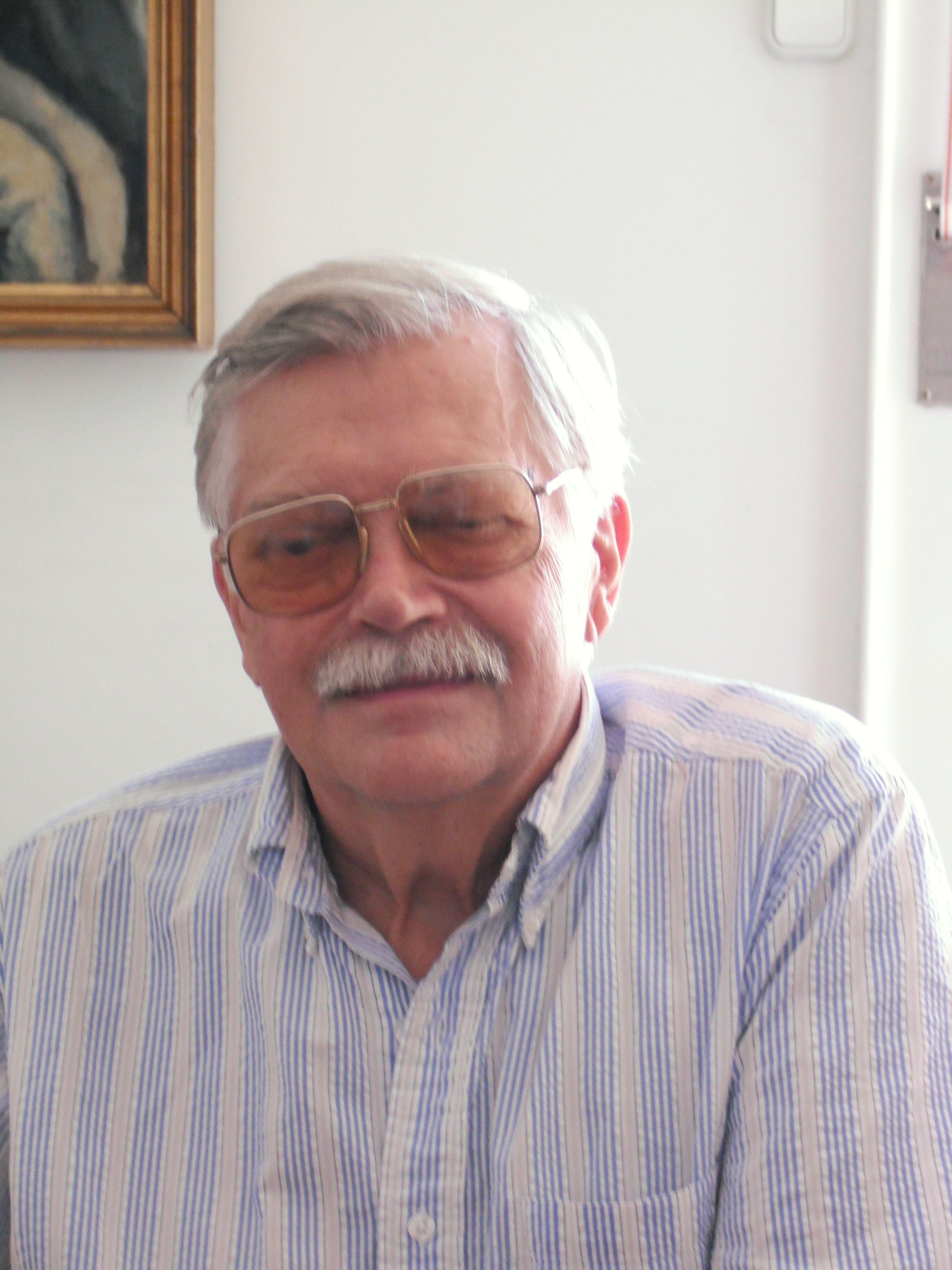 Iván Szelényi (DSc), sociologist, full member of the Hungarian Academy of Sciences, Professor of Sociology at Yale University (photo made in Budapest)